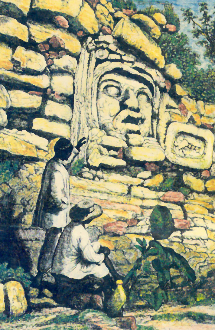 Coloured engraving of the mask in Izamal, Yucatan, Mexico.